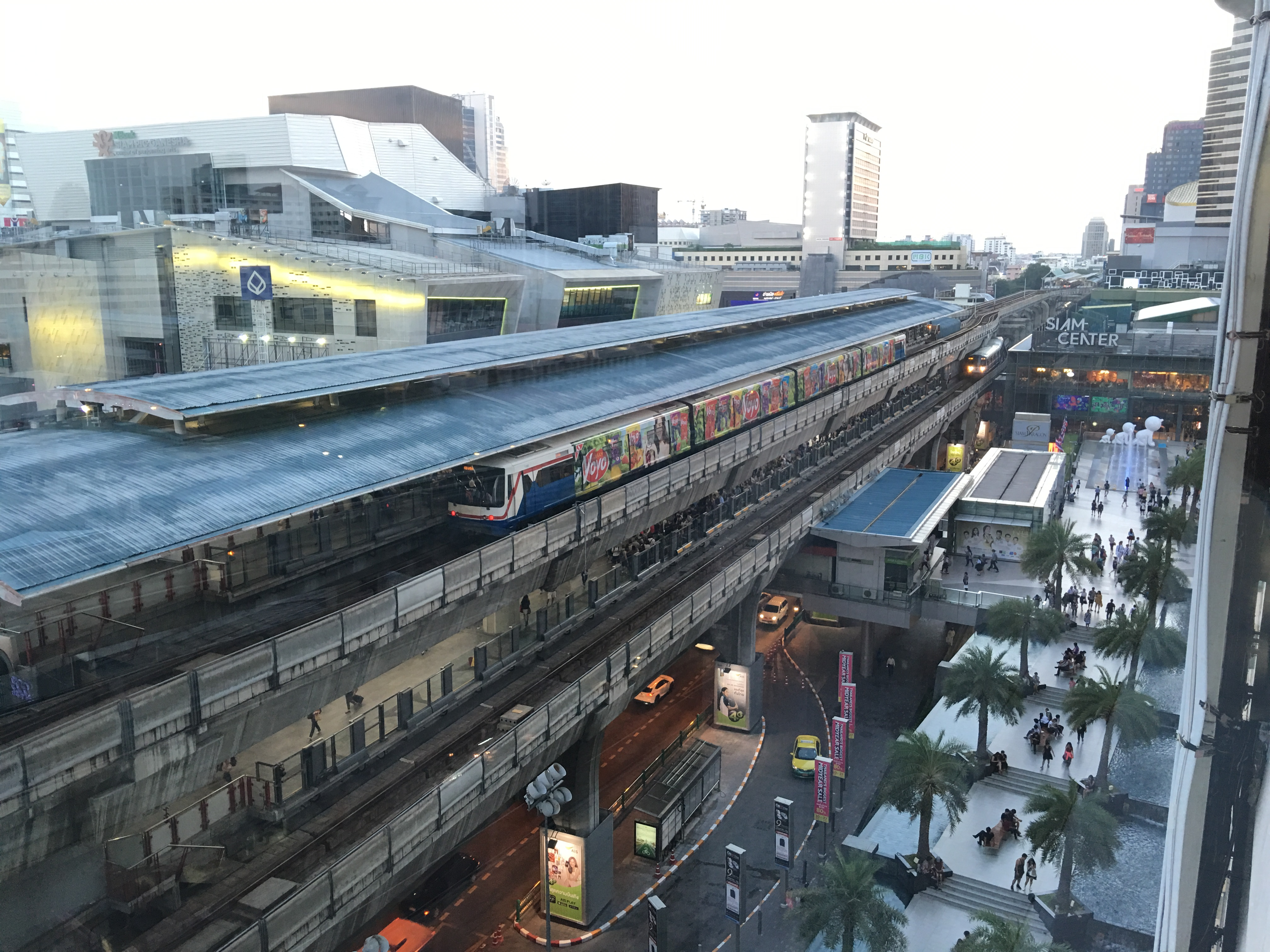 Siam BTS Station, view from Siam Paragon (4th floor) 15 July 2016